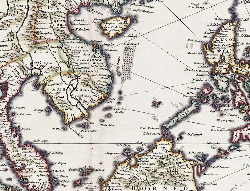 "I. de Pracel" in the 16th century map Indiae orientalis, nec non insularum adiacentium nova descriptio